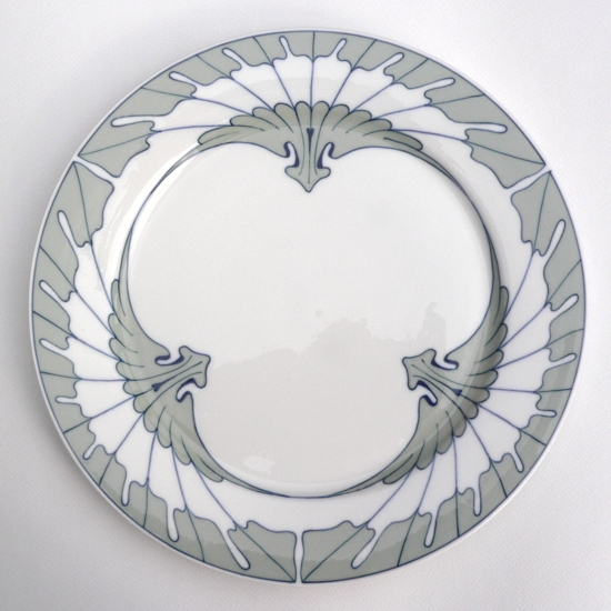 plate, wing decor